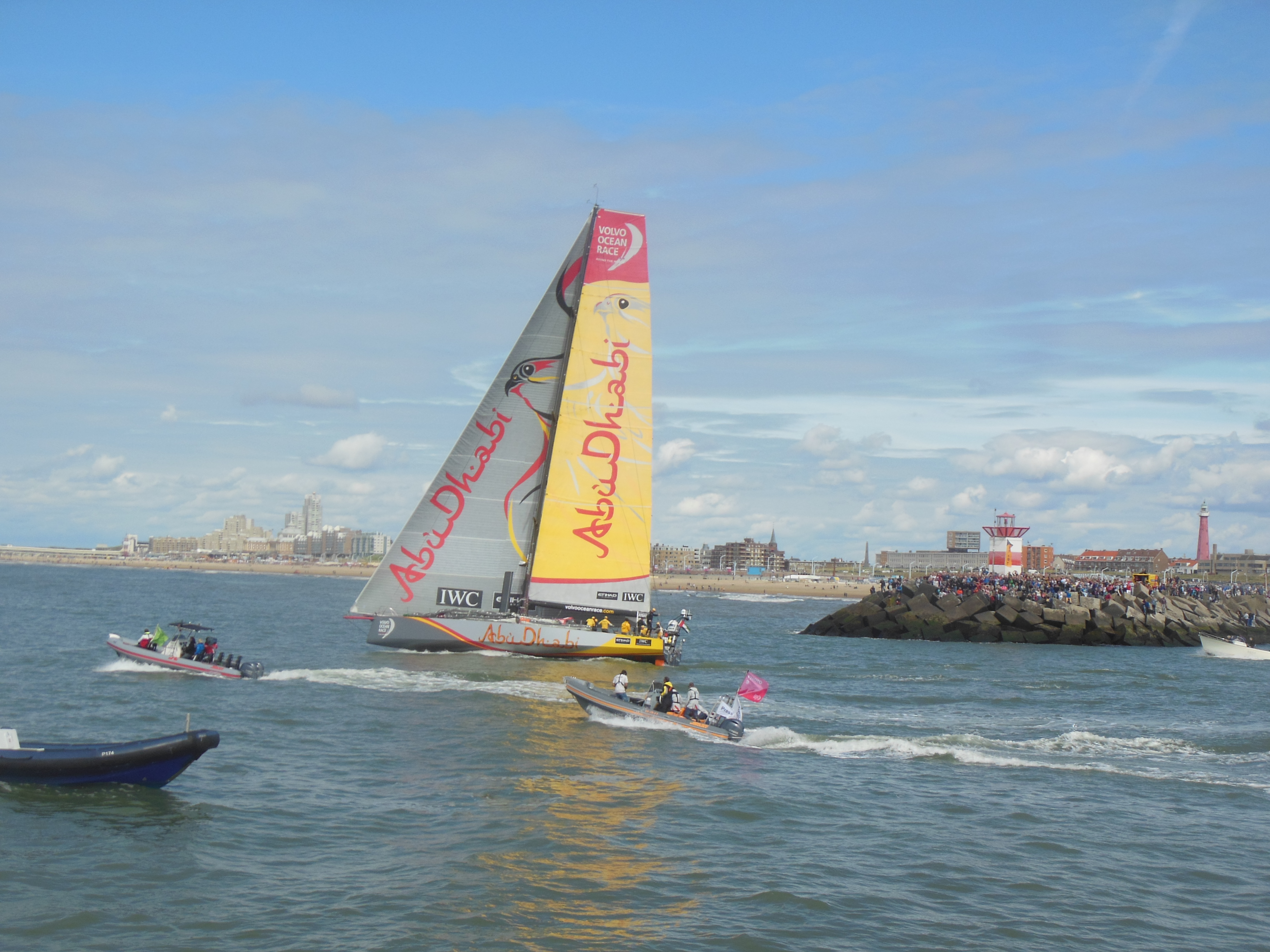 VO65 Abu Dhabi Ocean Racing at the re-start after the pitstop in Scheveningen, Volvo Ocean Race 2014-15